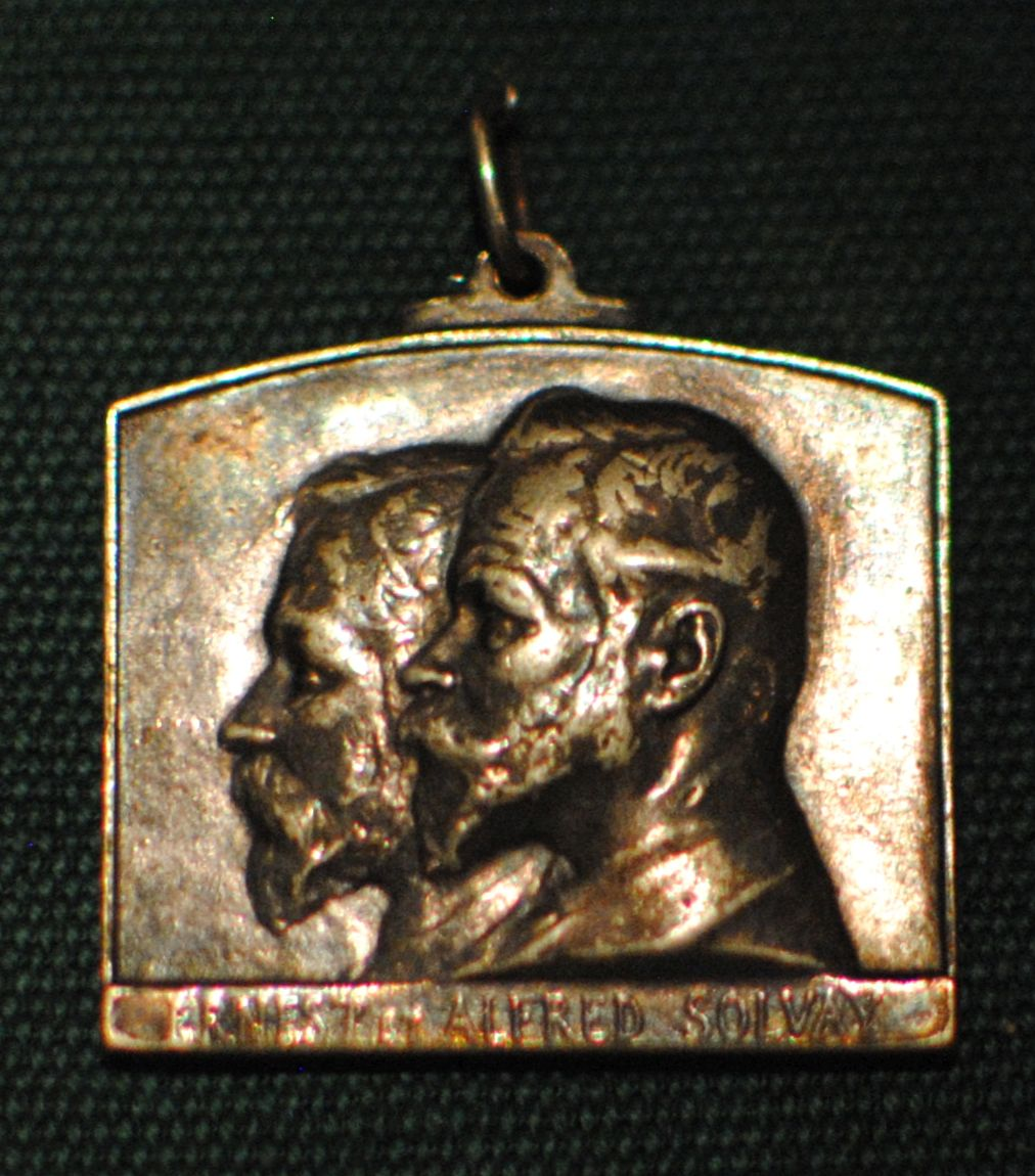 Medal cast in 1913 to commemorate the 50th anniversary of Solvay and Company. Now in Catalyst Science Discovery Centre, Widnes, England. Text (in French) reads "Ernest et Alfred Solvay".